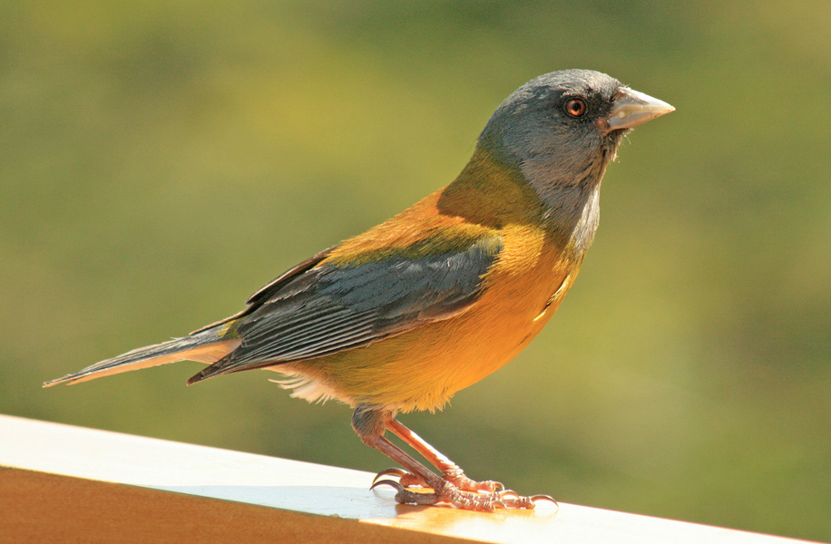 Phrygilus patagonicus, Argentina